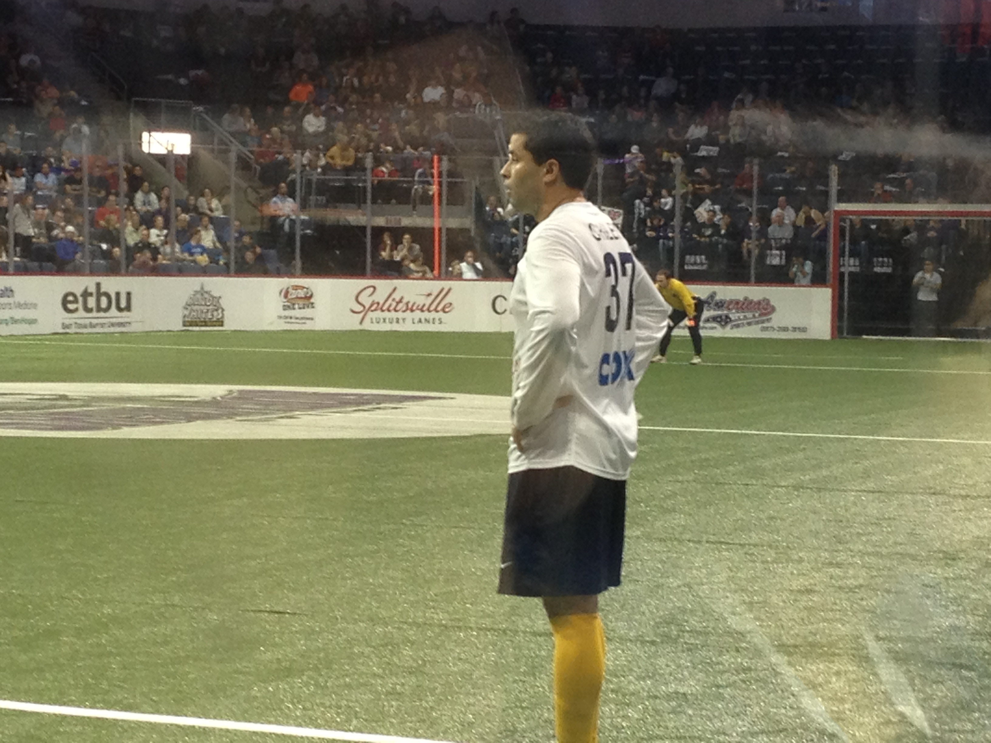 Top player Kraig Chiles during the January 27, 2013, Professional Arena Soccer League match between the Dallas Sidekicks and the San Diego Sockers at the Allen Event Center in Allen, Texas.